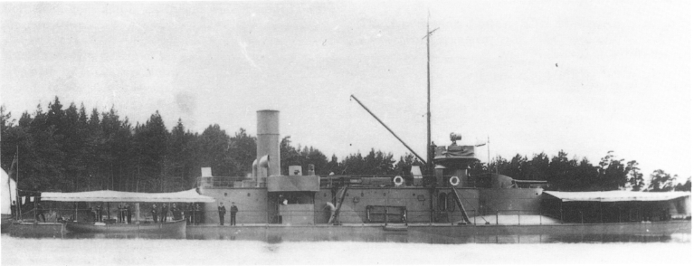 A photo of the Swedish monitor John Ericsson after her 1895 reconstruction.